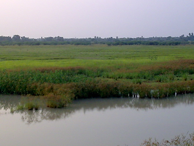 Agricultural land at Vadamanappakkam, India